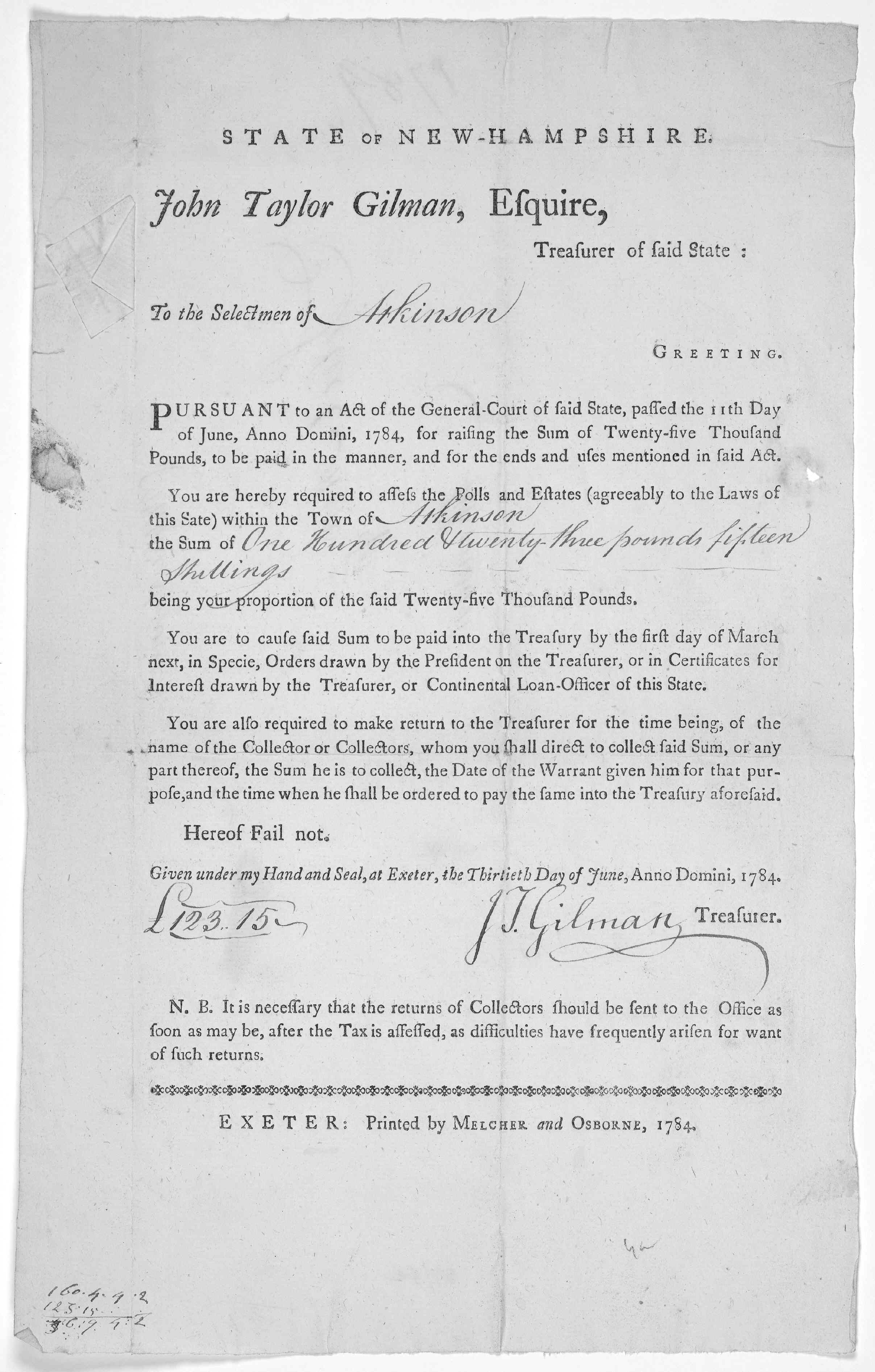 Order from John Taylor Gilman, Esq., Treasurer of the State of New Hampshire, to the selectmen to assess the polls and estates of Atkinson, as per an act of the General Court. Printed by Melcher and Osborne, Exeter, New Hampshire, 1784. The Library of Congress, Washington, D.C.